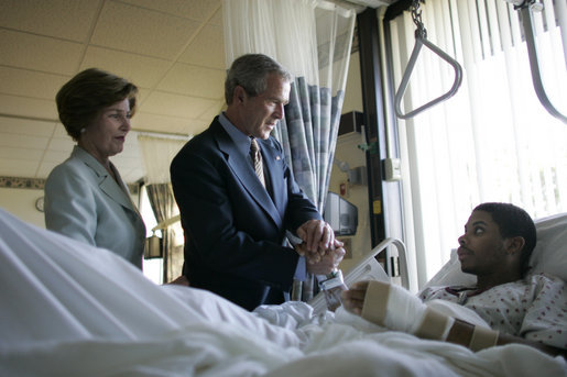 President George W. Bush and Mrs. Laura Bush talk with Sgt. Patrick Hagood of Anderson, S.C., Wednesday, Oct. 5, 2005, during their visit to Walter Reed Army Medical Center in Washington D.C. White House photo by Paul Morse.